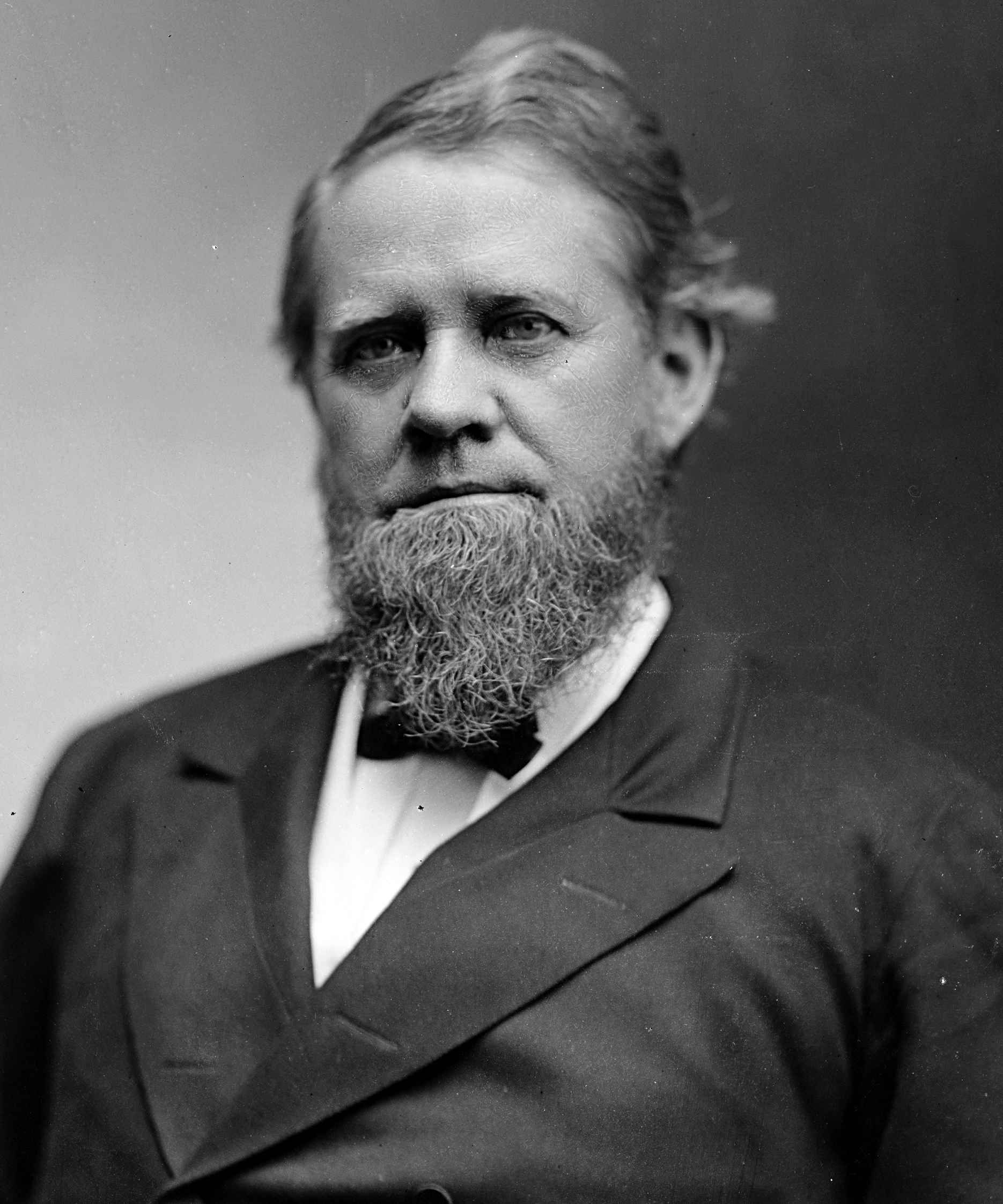 Amasa Norcross, US Representative from Massachusetts